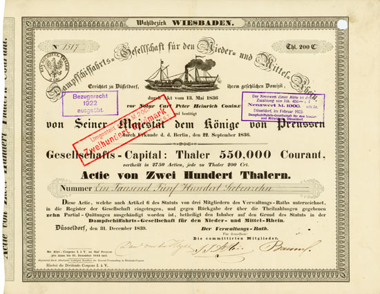 Stock share of Dampfschiffahrts-Gesellschaft für den Nieder- und Mittelrhein, issued 1836.